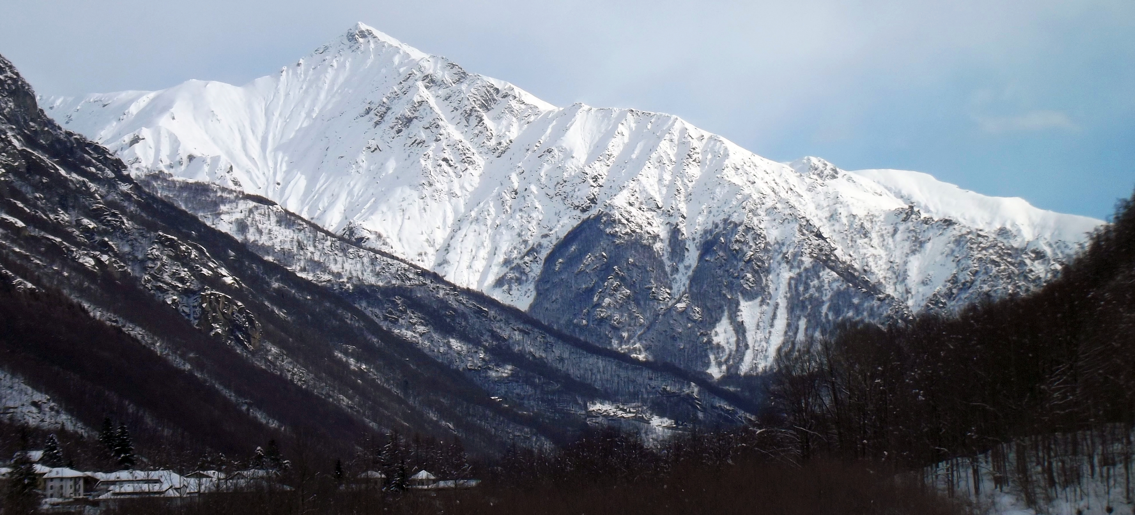 Mount Bellavarda from Pialpetta (Groscavallo, TO, Italy)